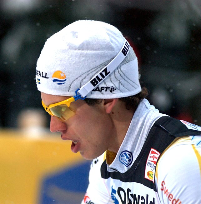 Marcus Hellner at the Tour de Ski 2010 in Oberhof